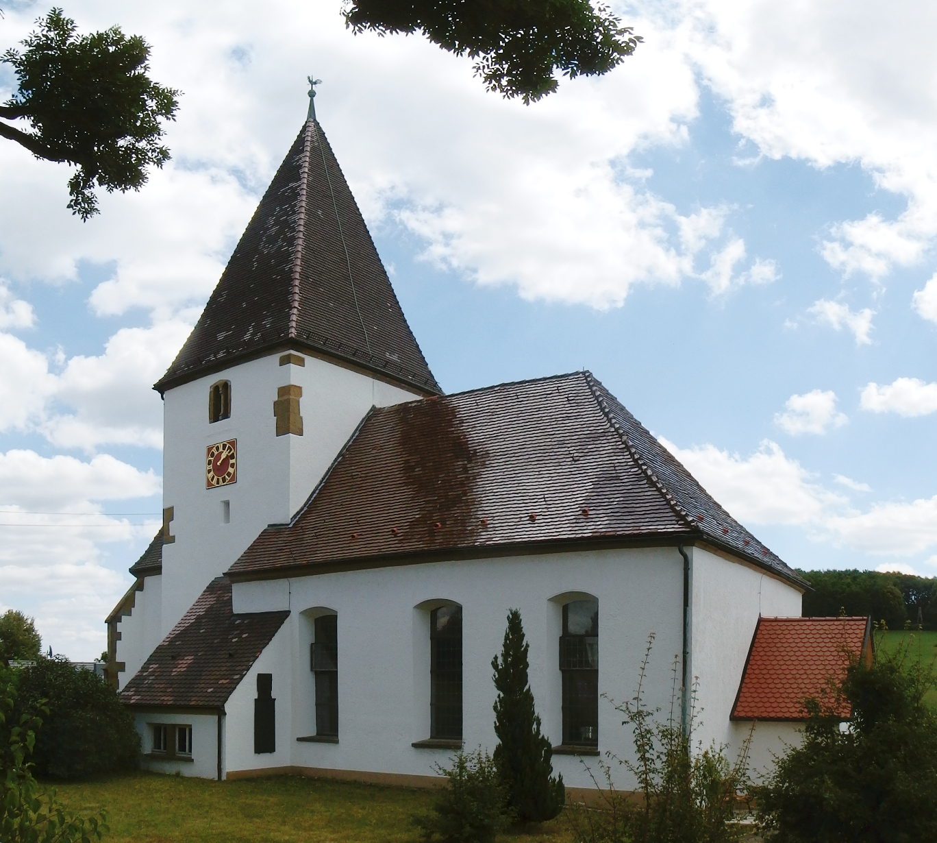 Protestant Church, Bartholomä, Germany